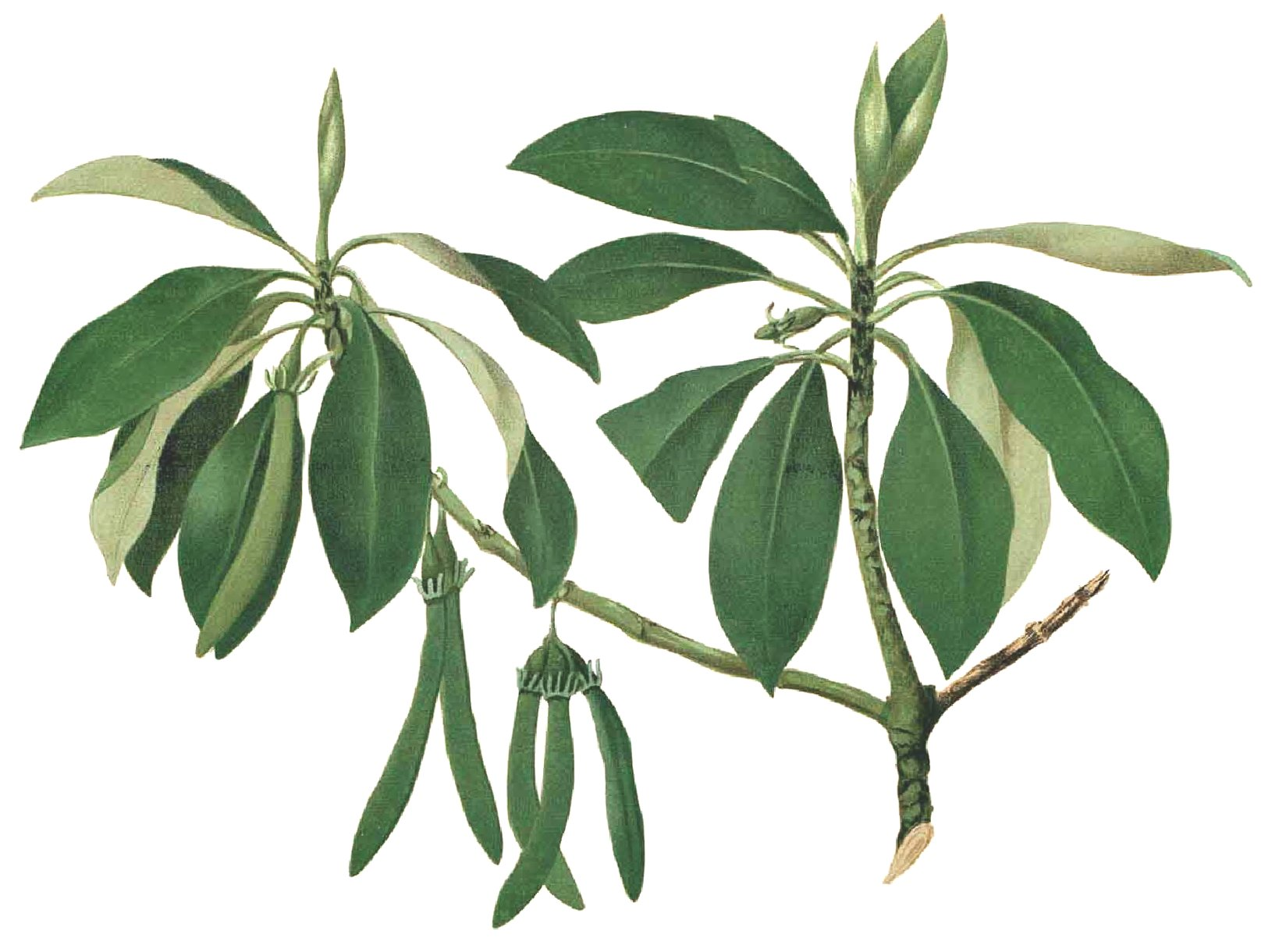 Plate from book